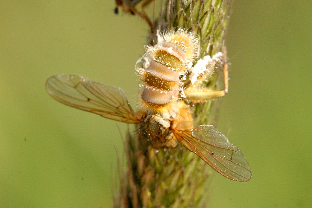 Entomophthera muscae from Commanster, Belgium. If you think this is a different taxon, please contact James Lindsey.